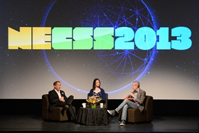 Northeast Conference on Science and Skepticism (NECSS) 2013 at Fashion Institute of Technology (FIT) NYC